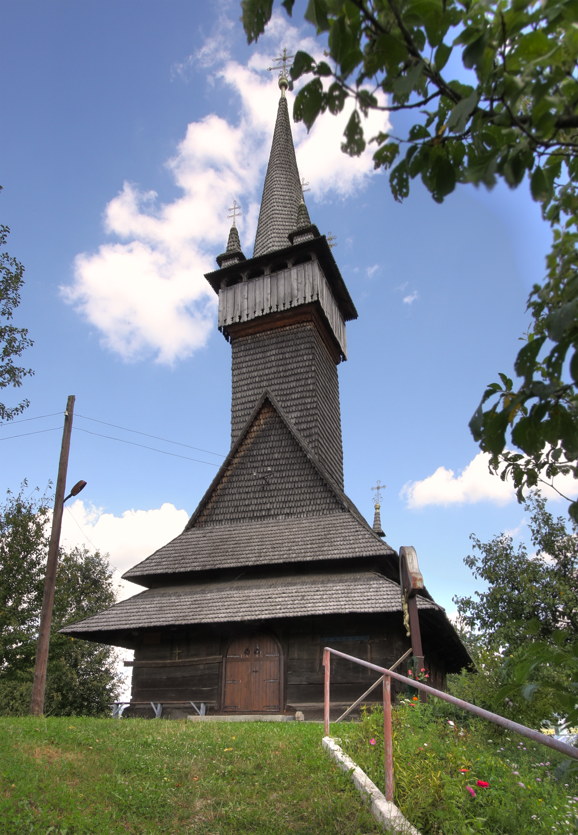 Church St. Nicholas, Nyzhnia Apsha (Dibrova), Tiachiv Raion, Zakarpattia Oblast, Ukraine